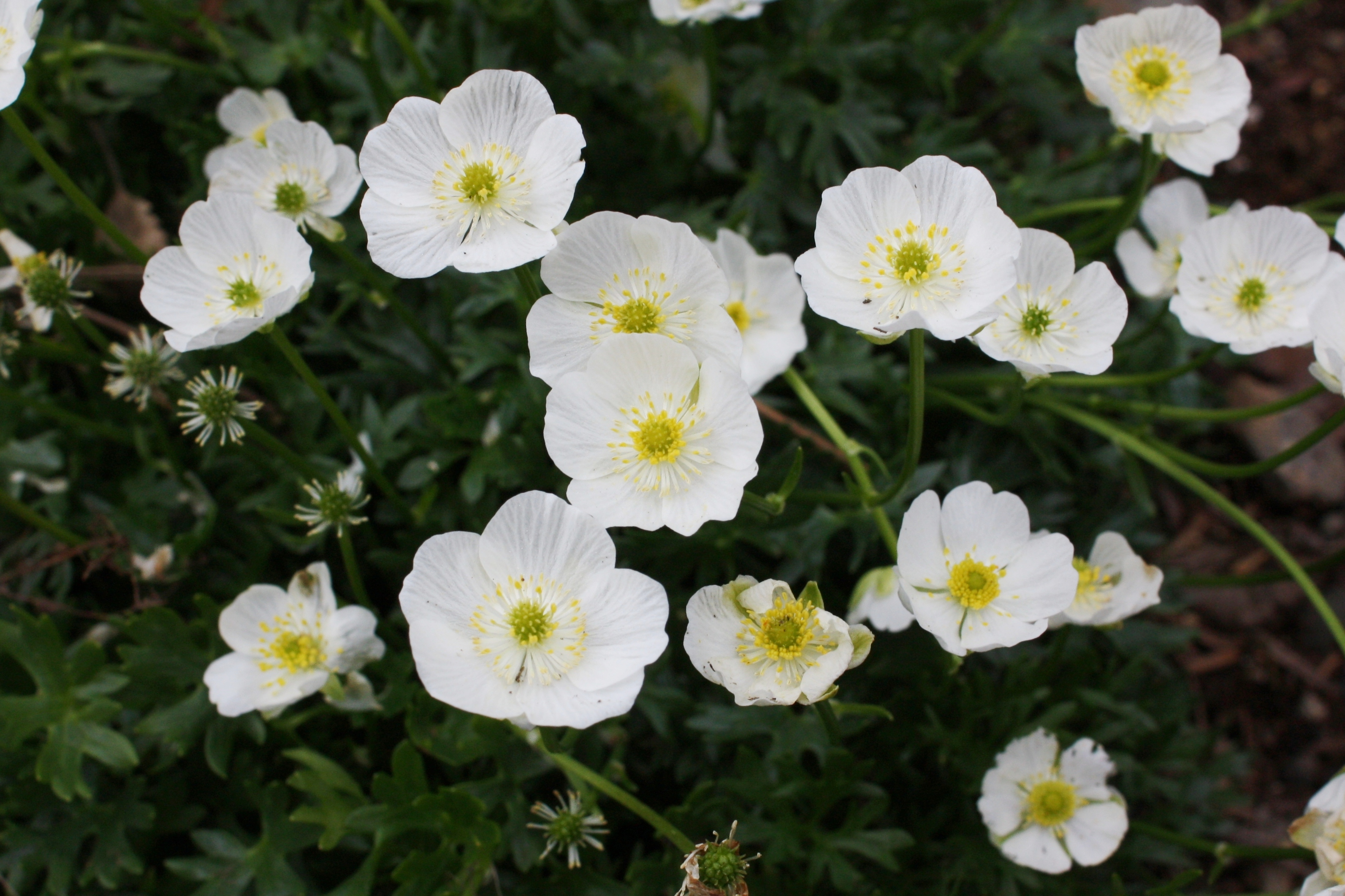 Ranunculus traunfellneri in Grasagarður Reykjavíkur the Reykjavik Botanic Garden